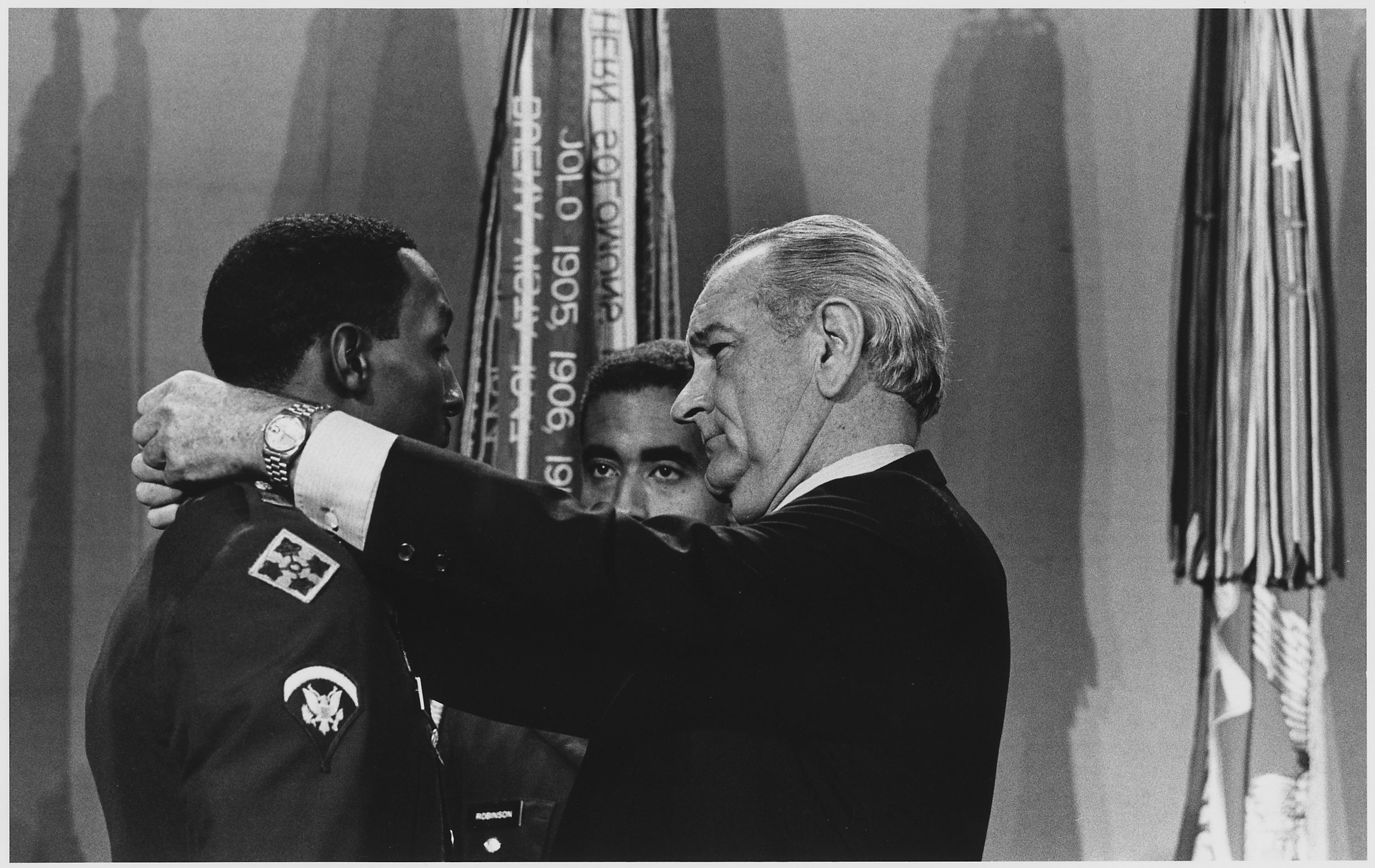 President Lyndon B. Johnson presents Medal of Honor to Specialist-5 Dwight Johnson, USA.